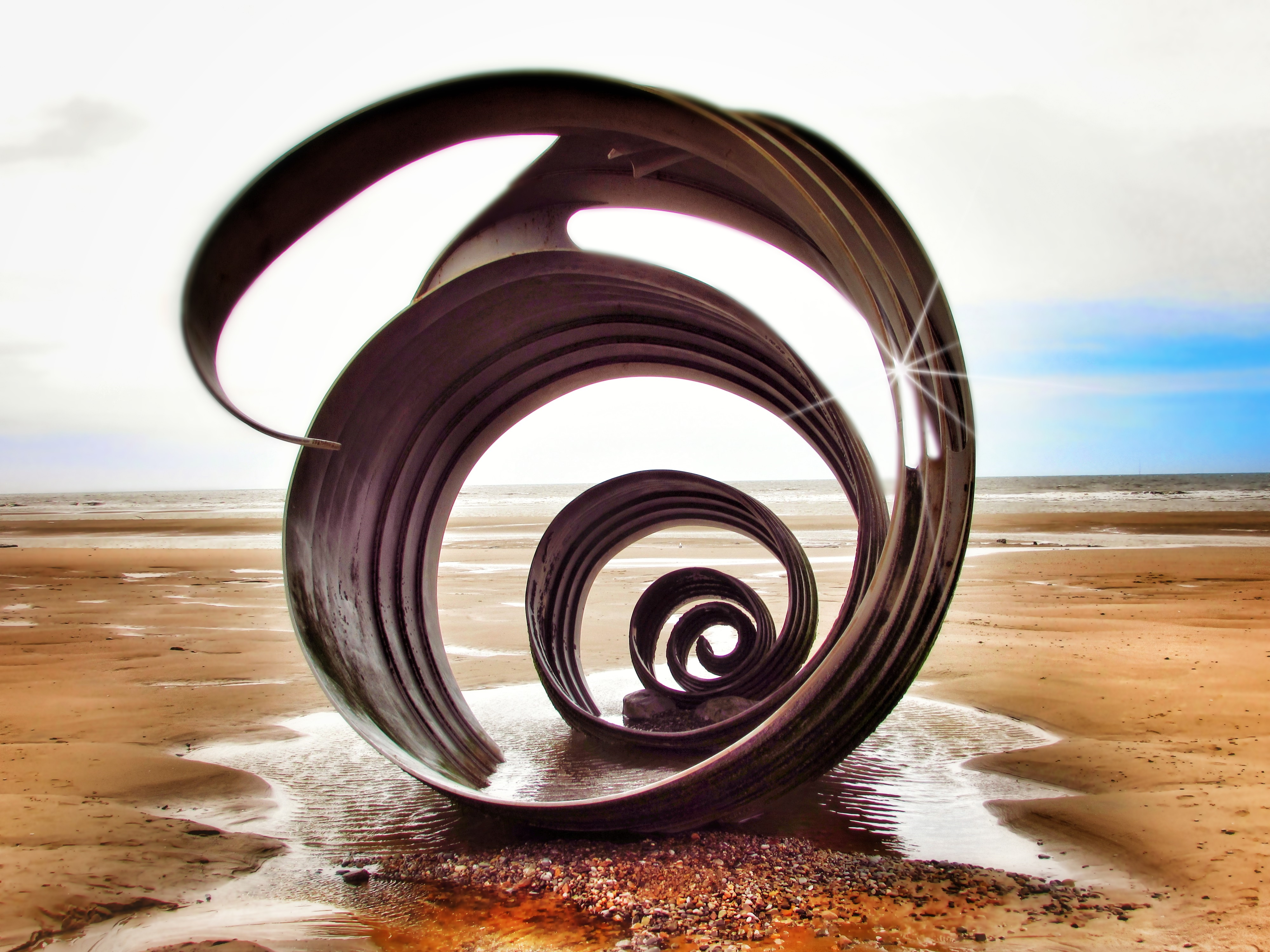 Mary's Shell, Cleveleys